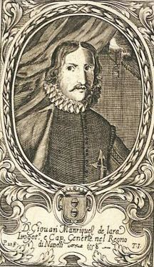 Juan Manrique de Lara, viceroy of Naples